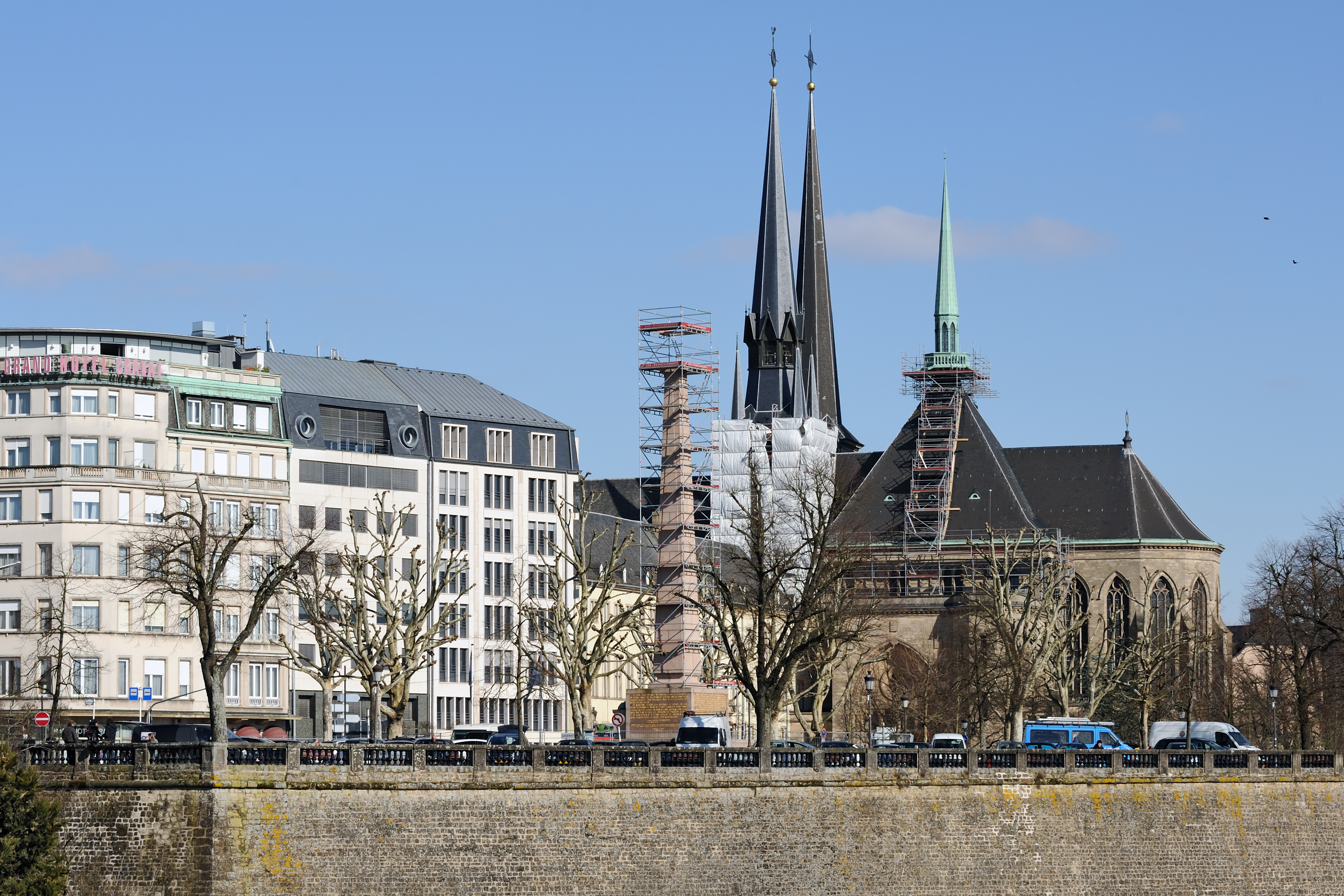 Luxembourg City: Bastion Beck, Constitution Square, Remembrance Memorial and Notre-Dame Cathedral seen from Adolphe Bridge. The statue of the Golden Lady was removed on March 3 2010, to be presented at the Luxembourg pavilion at the Expo 10 in Shanghai.